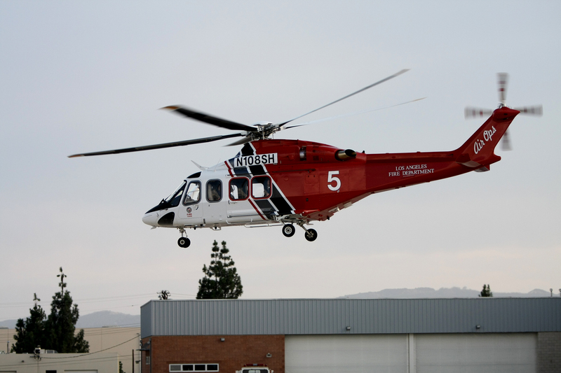 AW 139 LAFD Fire 5